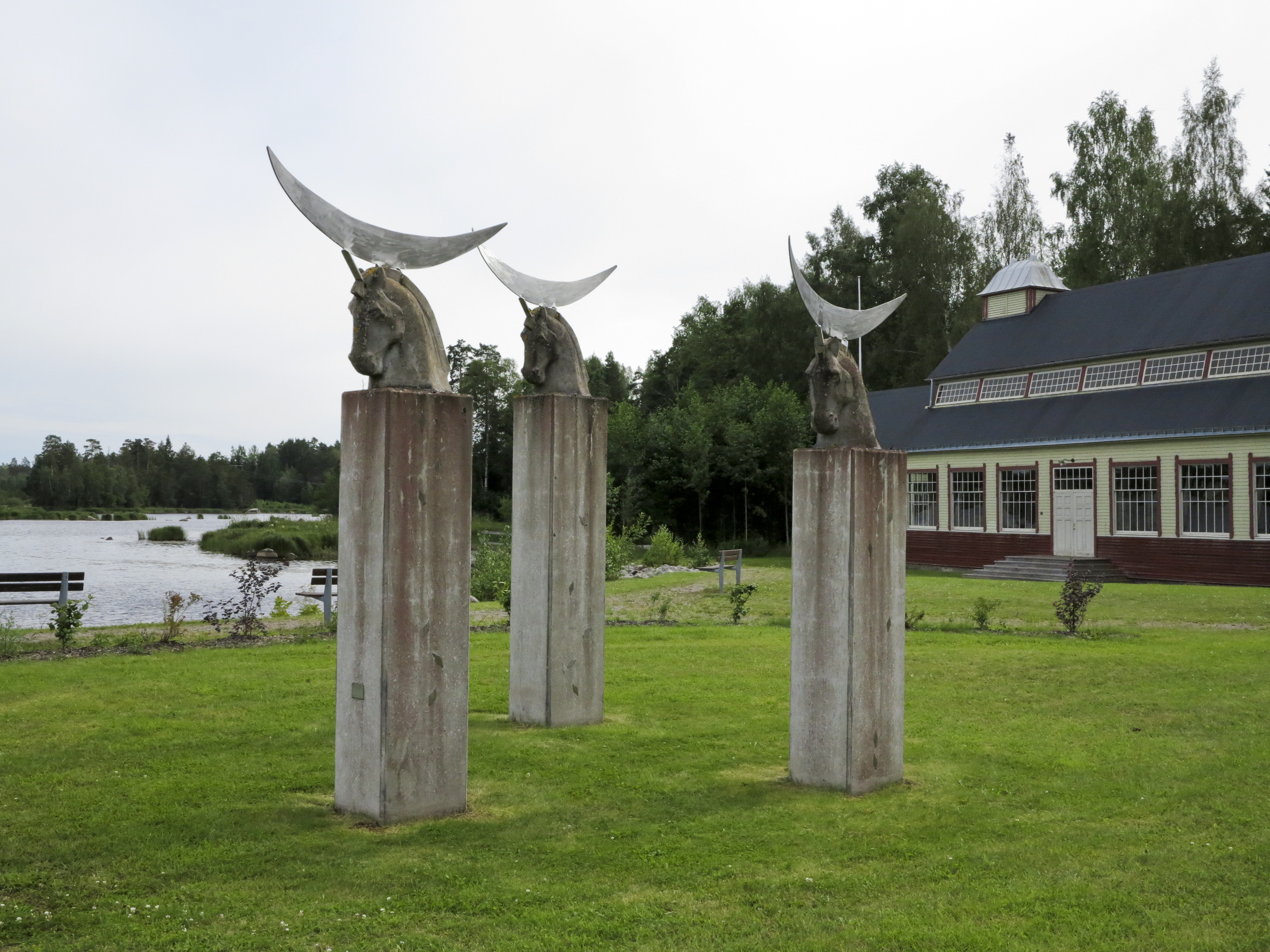 Sculpture by Camilla Bergman, "Silverspringare", Laxön, Älvkarleby, Sweden